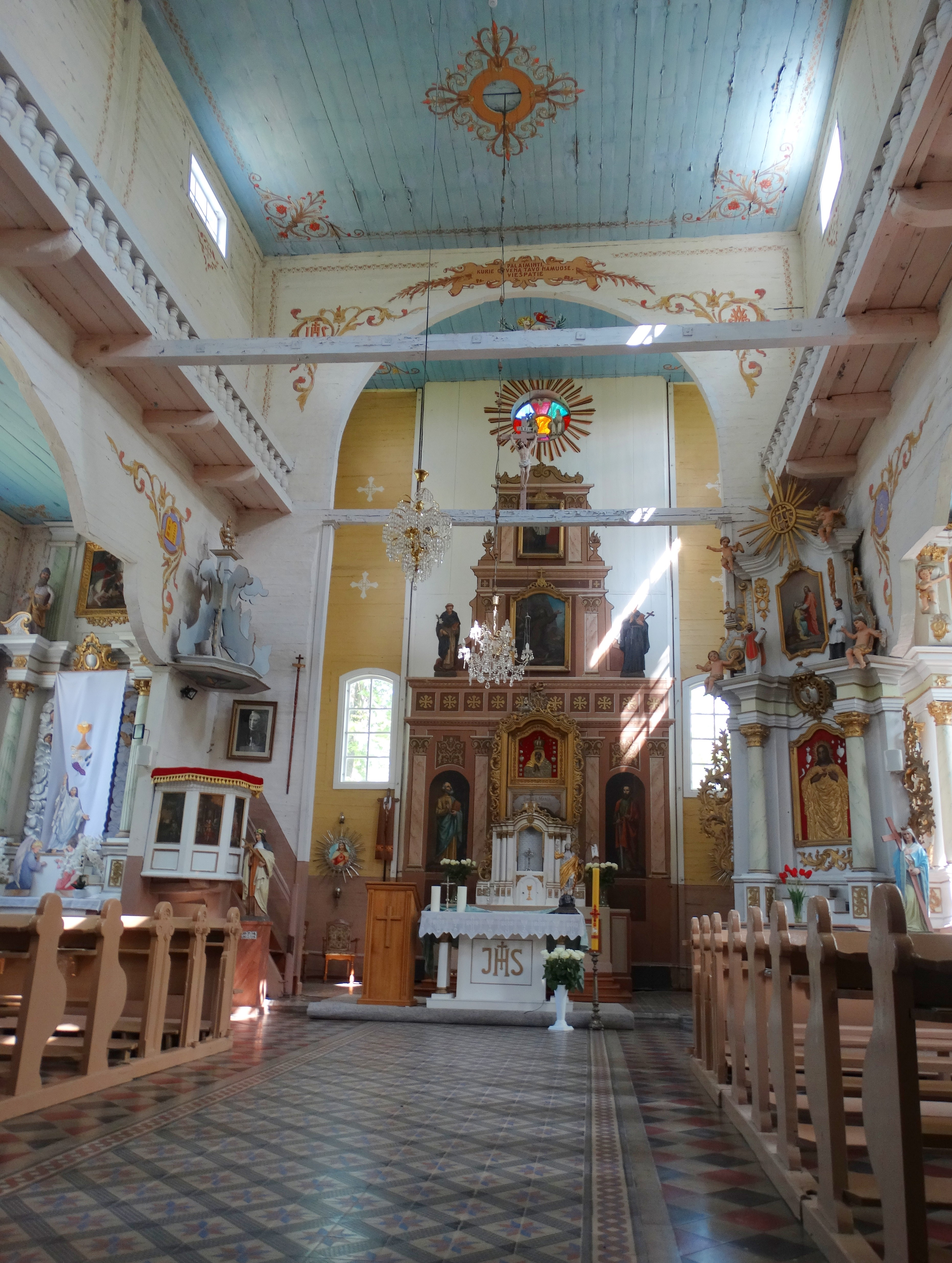 Catholic church, interior, Lauksodis, Lithuania